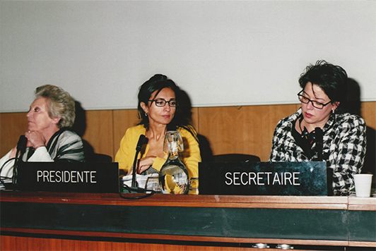 Vera el Khoury Lacoeuilhe presiding of the Intergovernmental Committee for the Protection and Promotion of the Diversity of Cultural Expressions